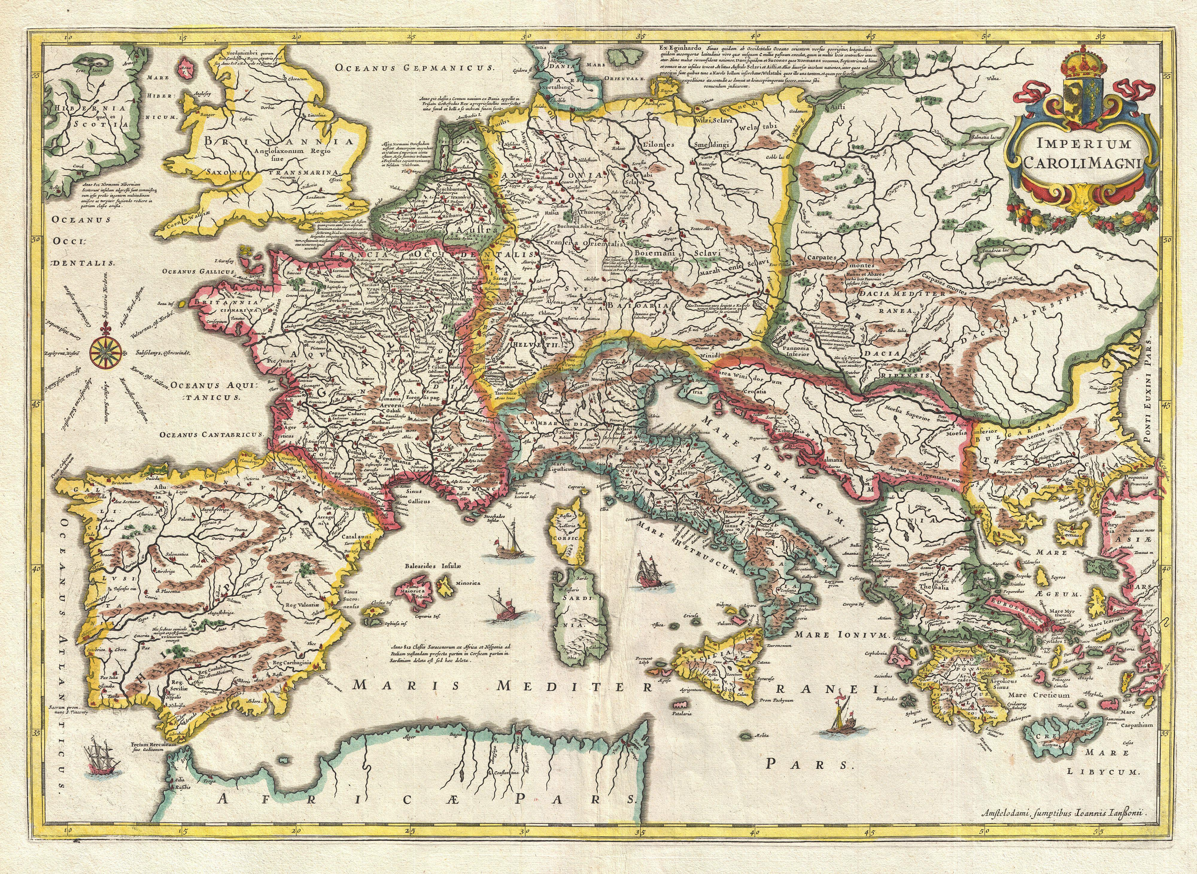 This is a remarkable example of Jan Jansson's 1657 mapping of the Empire of Charlemagne. Covers from Spain to the Black Sea and from Denmark and Ireland to North Africa. Filled with copious notations in Latin. Decorative sailing vessels ply the Mediterranean. A decorative title cartouche appears in the upper right quadrant. This remarkable map was published in volume six, the Orbis Antiquus , of Jan Jansson's Novus Atlas .